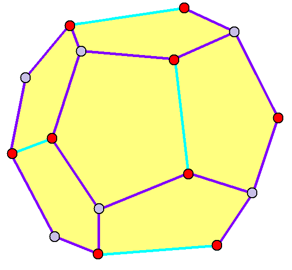 Pyritohedron image